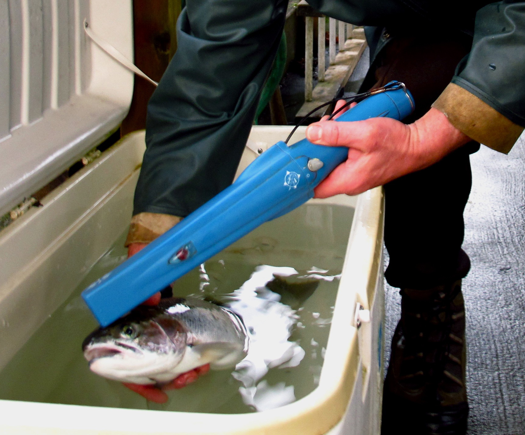 Head of steelhead fish being scanned with a wand for presence of a coded wire tag. Image cropped for focus on fish.